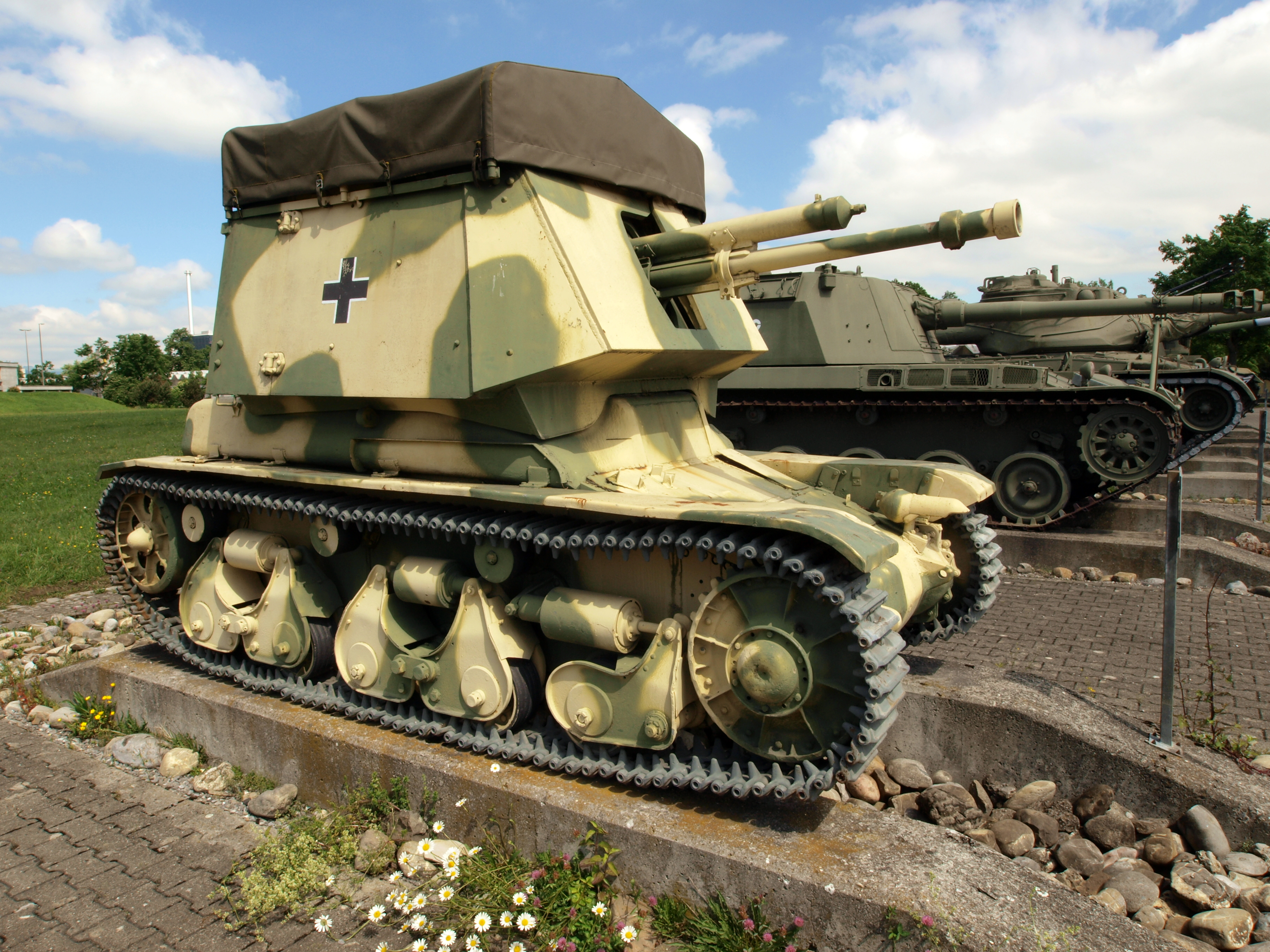 Photographed at the army base Thun, Switserland.